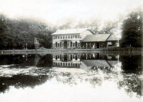 The pavillion in Borgvold, Viborg. Built 1867 to a design by Julius Tholle, rebuilt 1896, and sabotaged 1943 by the Danish resistance movement.